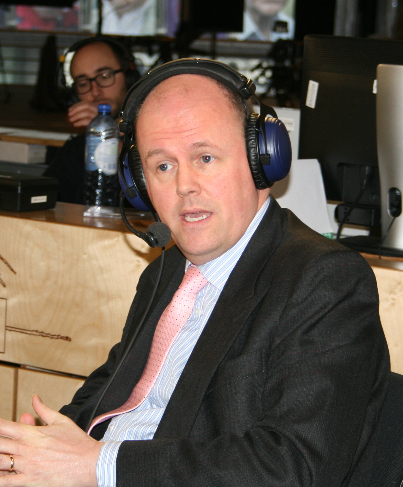 Ashley Fox, Conservative MEP for South West England, speaking at the Citizens' Corner debate on the right to vote organized by Euranet Plus and Radio-Television Slovenia.